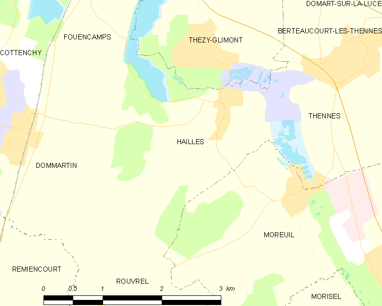 Map of French municipality Hailles